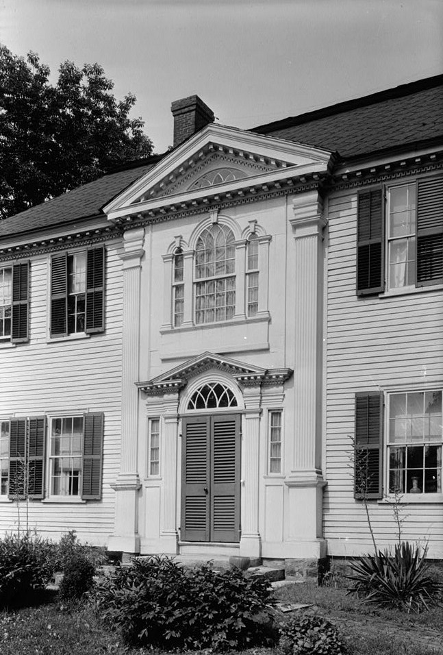 Elisha Payne—Prudence Crandall House — Detail of front entrance. Canterbury (Windham County, Connecticut). 1940 photo from the Historic American Buildings Survey of Connecticut. HABS CONN,8-CANBU,1-3; cropped. This file comes from the Historic American Buildings Survey (HABS), Historic American Engineering Record (HAER) or Historic American Landscapes Survey (HALS). These are programs of the National Park Service established for the purpose of documenting historic places. Records consist of measured drawings, archival photographs, and written reports. When reusing please credit: Library of Congress, Prints & Photographs Division, CT-163 This tag does not indicate the copyright status of the attached work. A normal copyright tag is still required. See Commons:Licensing for more information. English | +/− This work is in the public domain in the United States because it is a work prepared by an officer or employee of the United States Government as part of that person’s official duties under the terms of Title 17, Chapter 1, Section 105 of the US Code. See Copyright. Note: This only applies to original works of the Federal Government and not to the work of any individual U.S. state, territory, commonwealth, county, municipality, or any other subdivision. This template also does not apply to postage stamp designs published by the United States Postal Service since 1978. (See 206.02(b) of Compendium II: Copyright Office Practices). It also does not apply to certain US coins; see The US Mint Terms of Use. This file has been identified as being free of known restrictions under copyright law, including all related and neighboring rights.